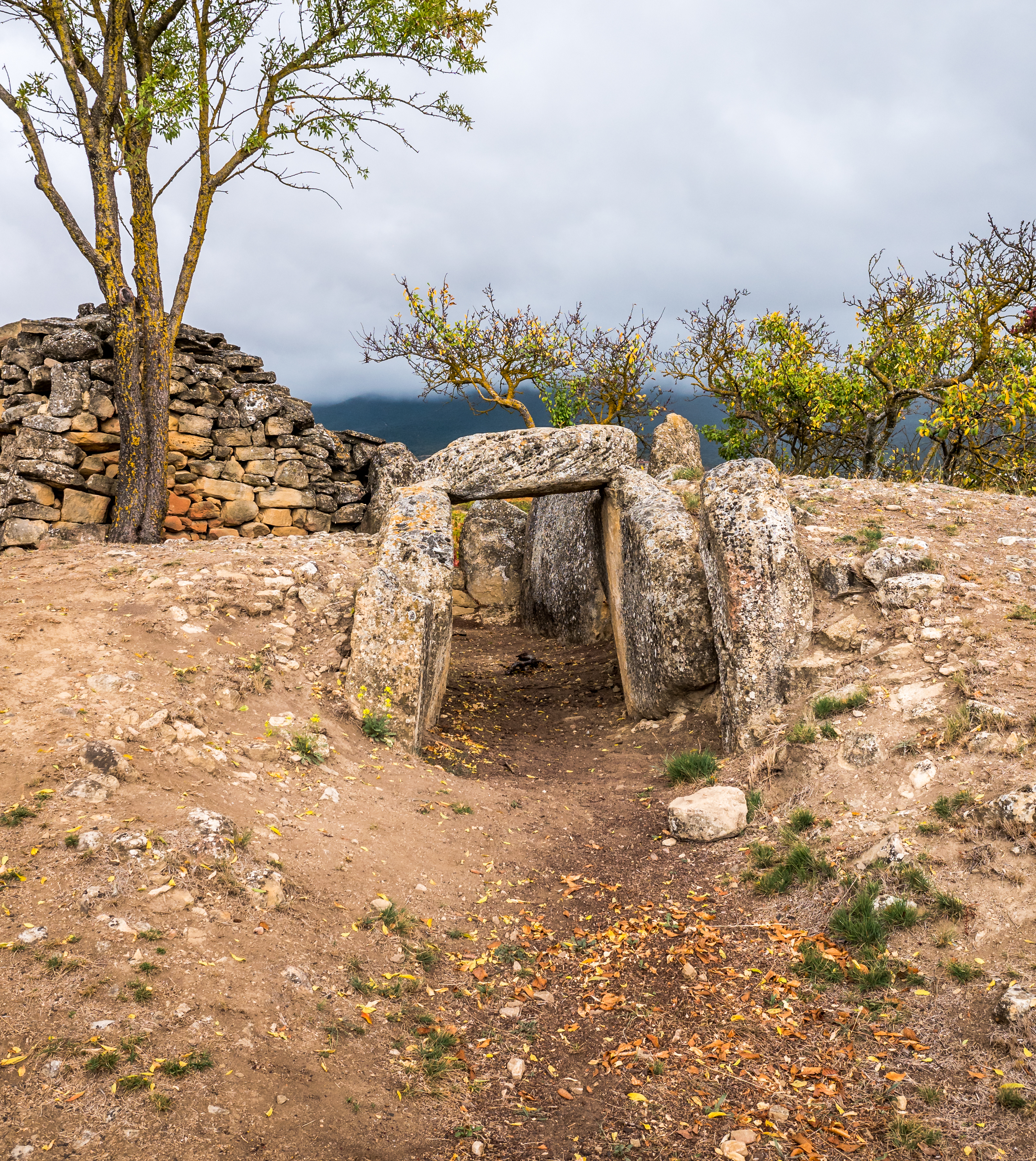 Dolmen San Martín near Laguardia. Rioja Alavesa, Basque Country, Spain